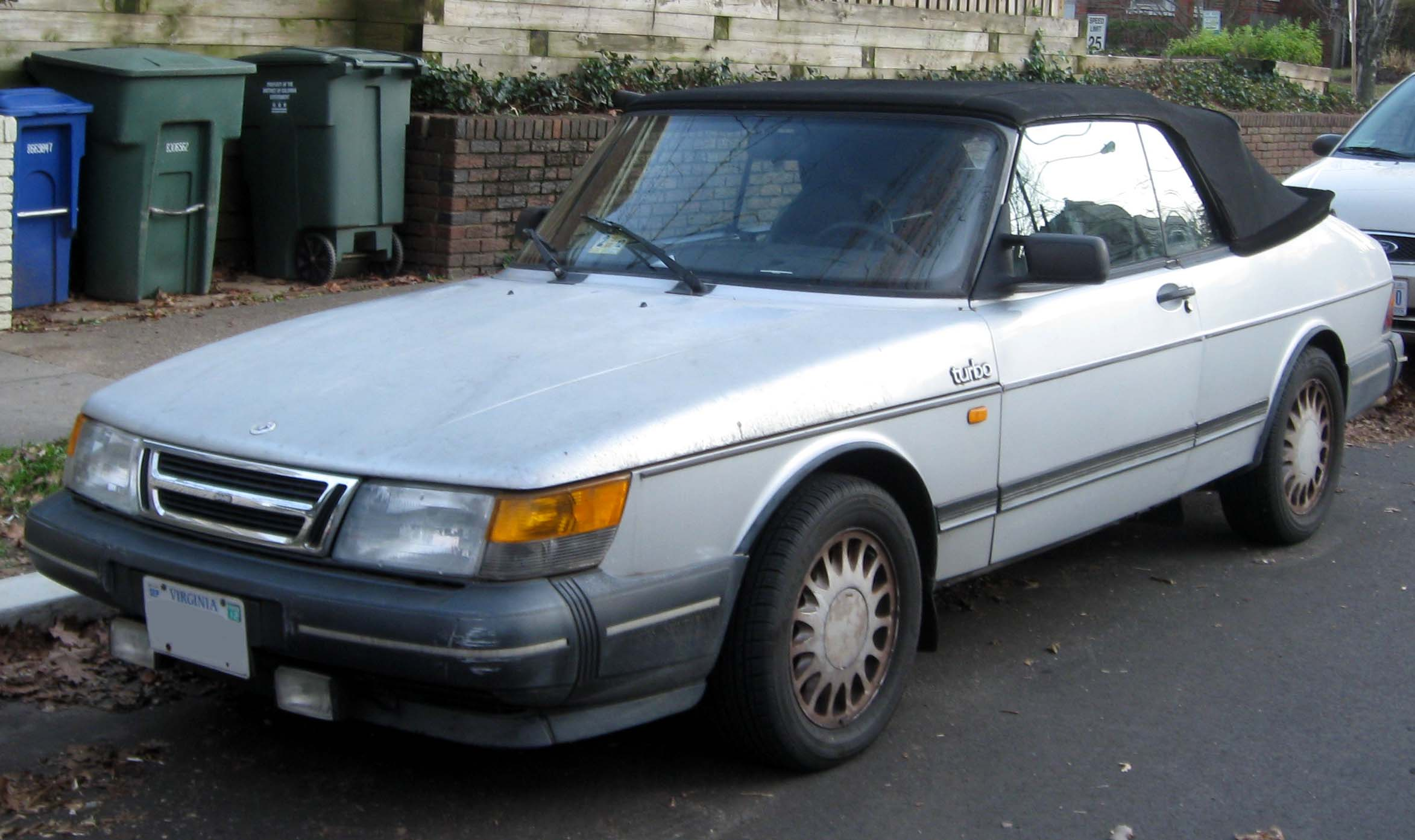 Saab 900 photographed in Washington, D.C., USA.